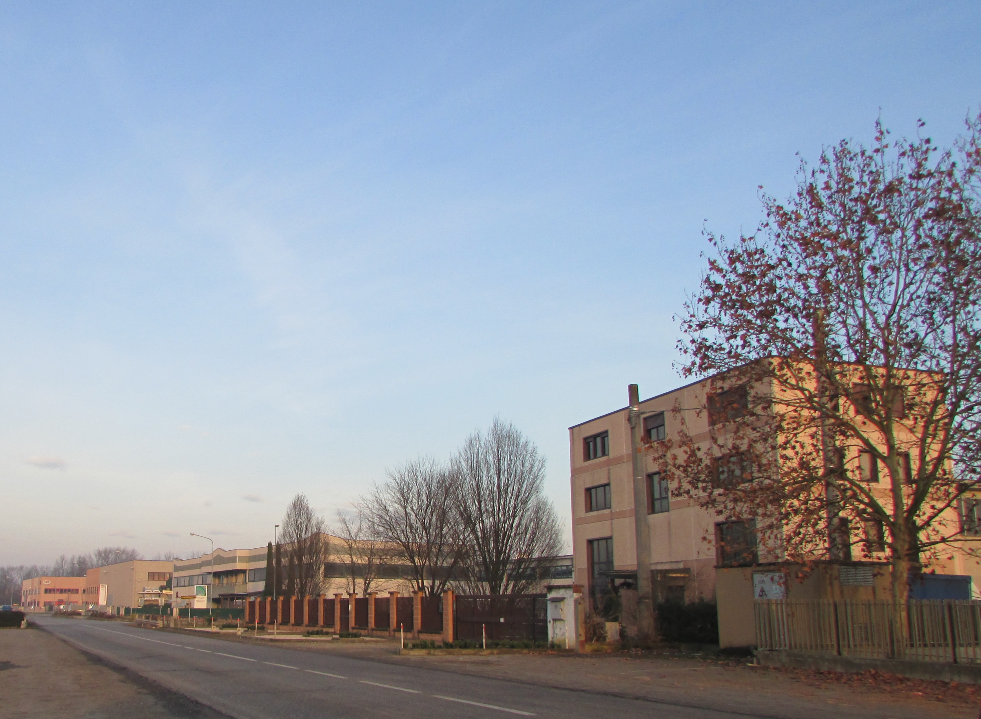 industrial area in Casale of Mezzani